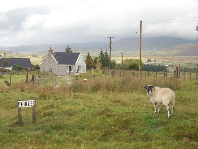 Peiness. Part of the small crofting settlement at Peiness, by the River Snizort.